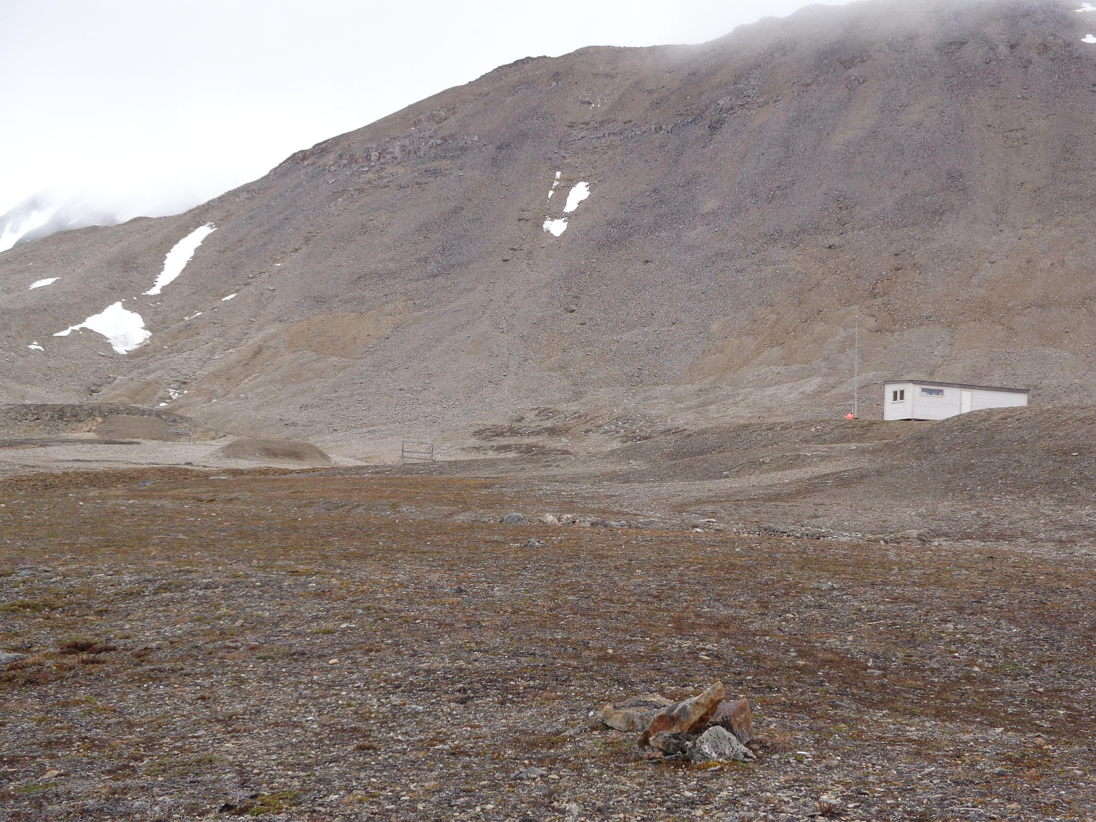 Area for shooting courses in Ny-Ålesund, Norway